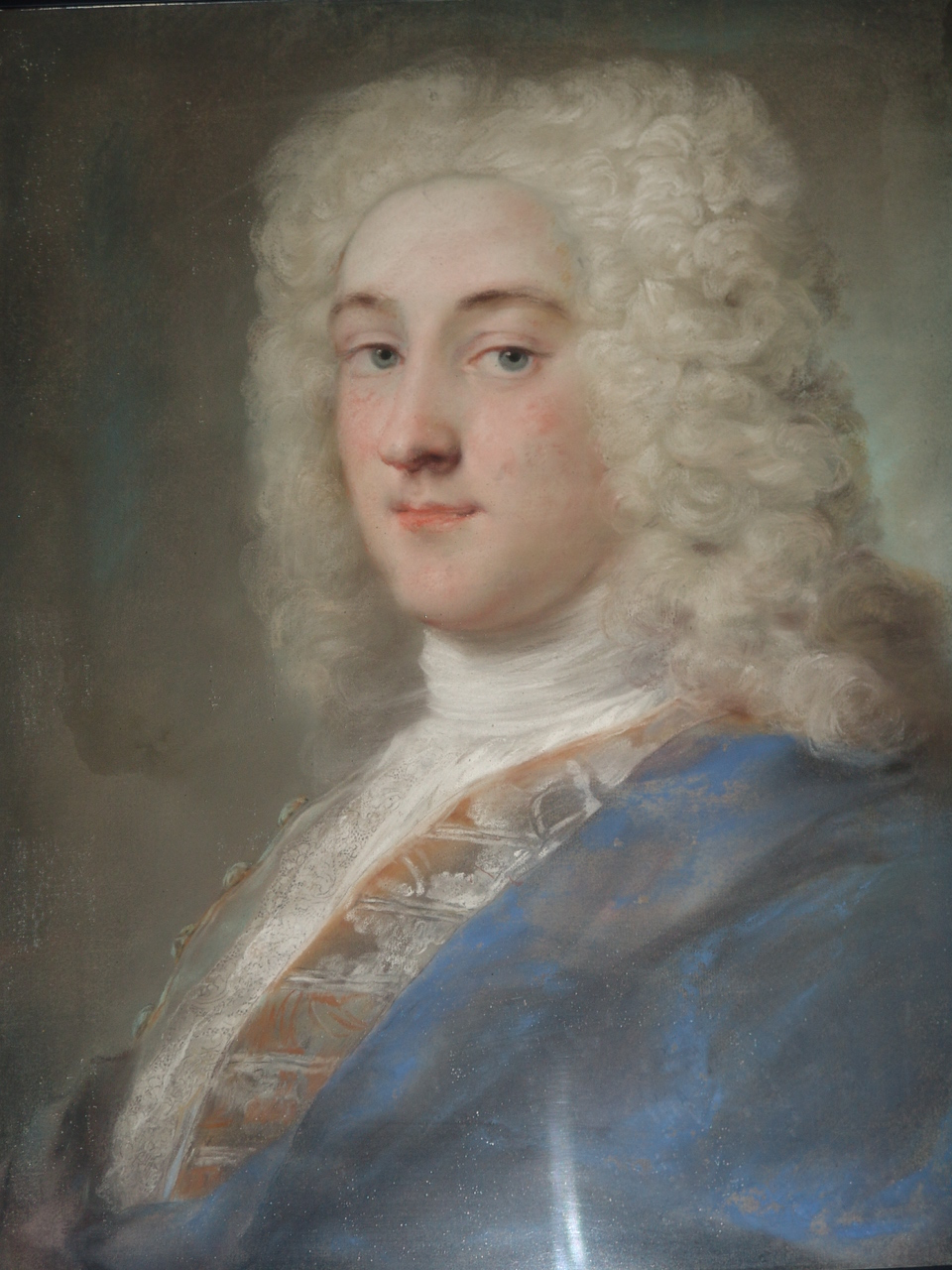 Alan 2nd Viscount Midleton N. 1701 06.1747